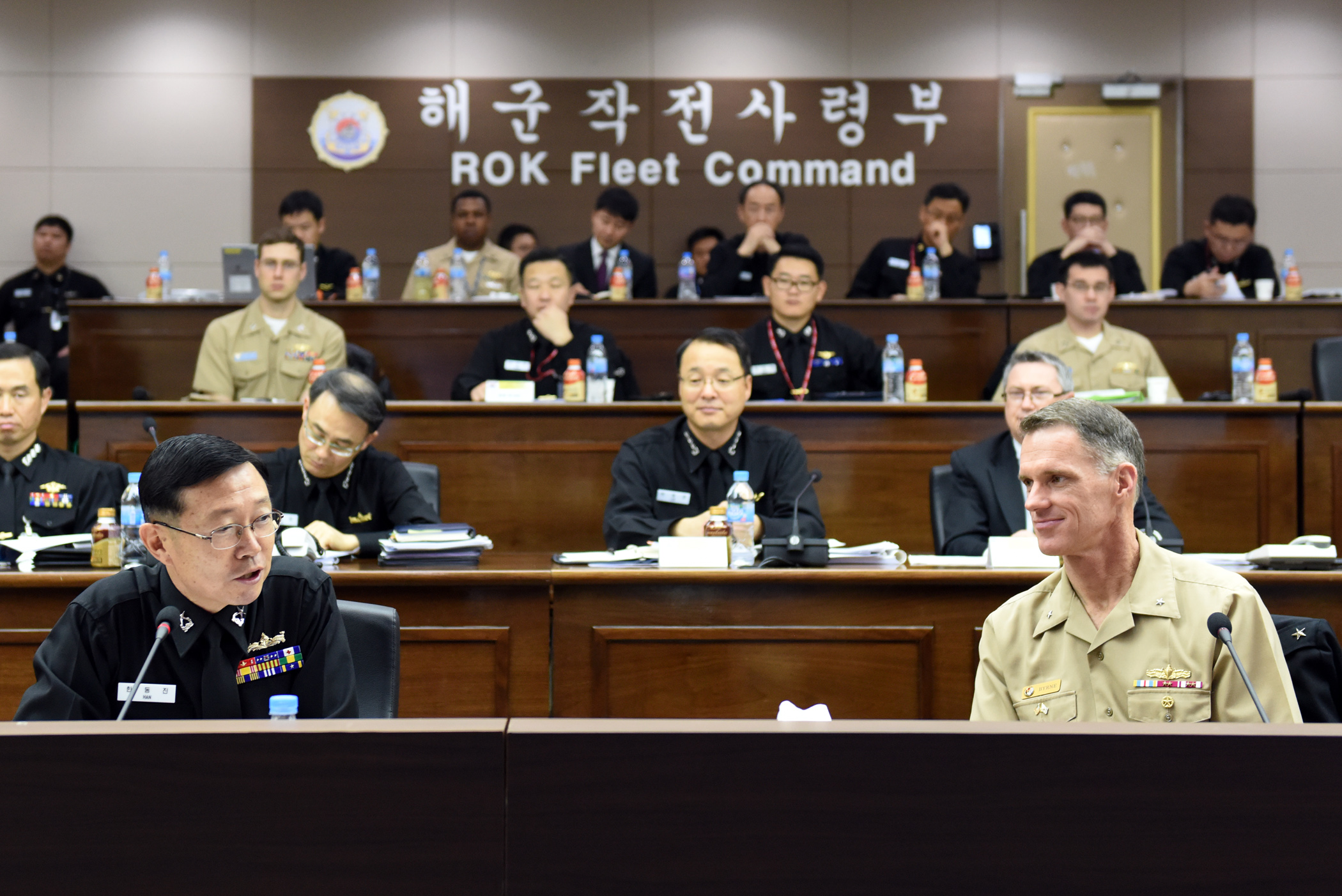 151201-N-AD372-113 BUSAN, Republic of Korea, (Dec. 1, 2015) Rear Adm. Bill Byrne, commander of U.S. Naval Forces Korea, and Rear Adm. Han, Dong-Jin, chief of staff for Commander, Republic of Korea (ROK) Fleet, deliver opening remarks at the second U.S. and ROK Anti-Submarine Warfare (ASW), working group conference in Busan. The working group conference brought together senior naval leaders from both nations to discuss ASW operations, capabilities and strategic dialogue between the two maritime partners.